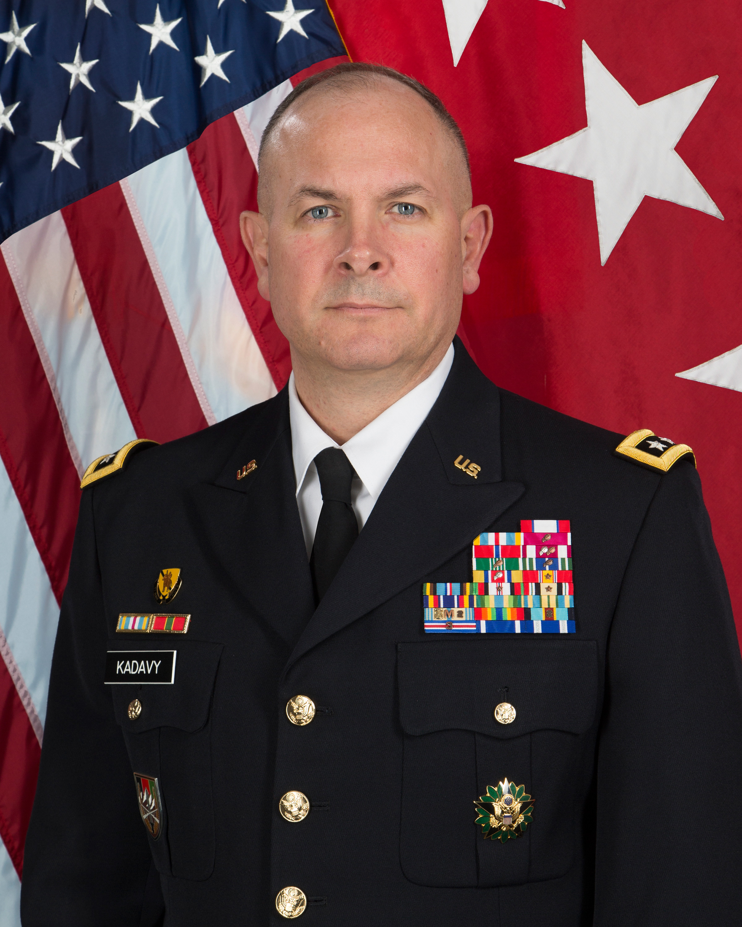 Lieutenant General Timothy J. Kadavy, USADirector of the Army National Guard